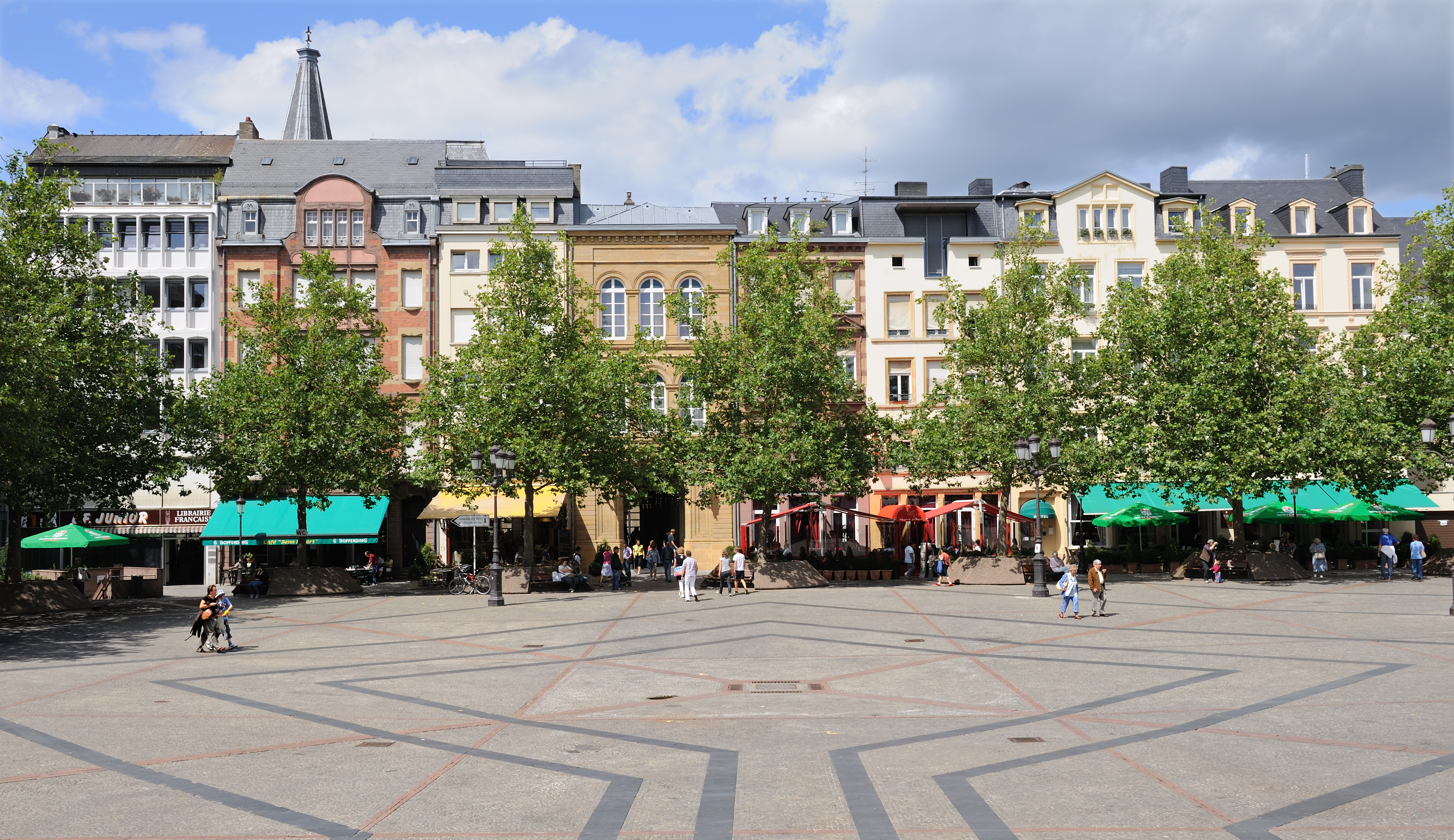 Luxembourg City: square Guillaume, seen from the stairs of the City Hall